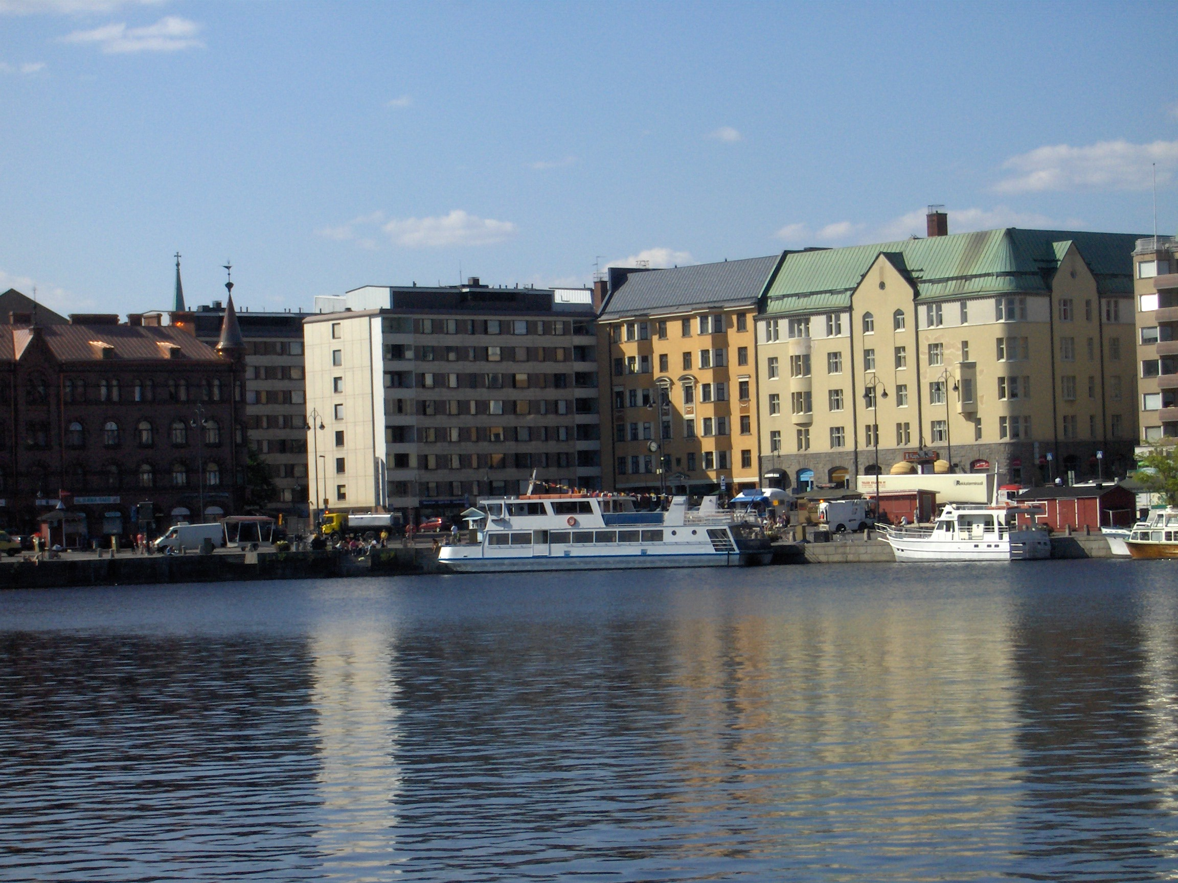 Laukontori market place in Tampere, Finland